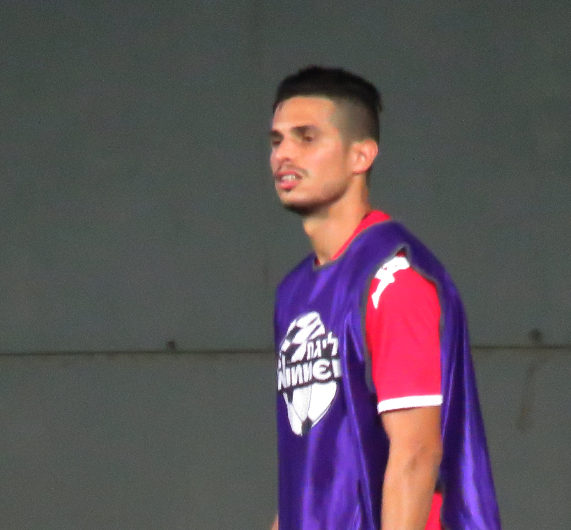 Hapoel Ra'anana vs. Hapoel Be'er Sheva - September 12, 2015